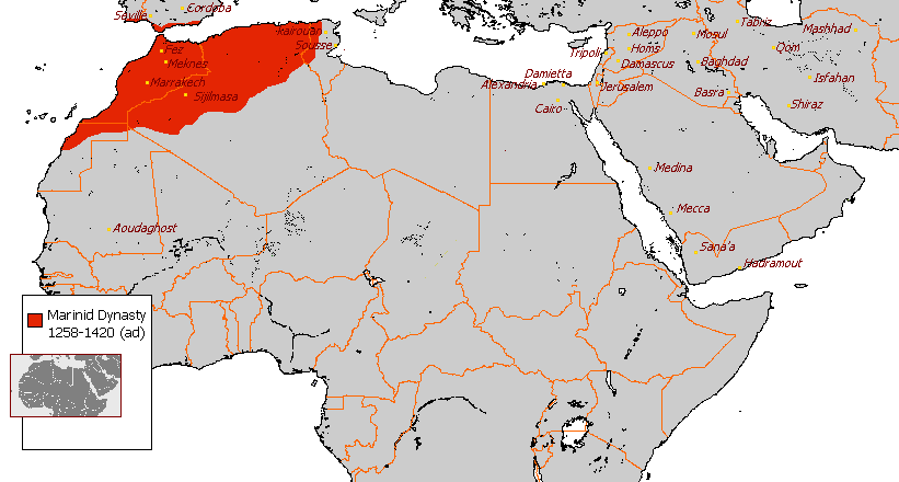 The Marinid empire at its maximal extent, 1347-1348(AD)